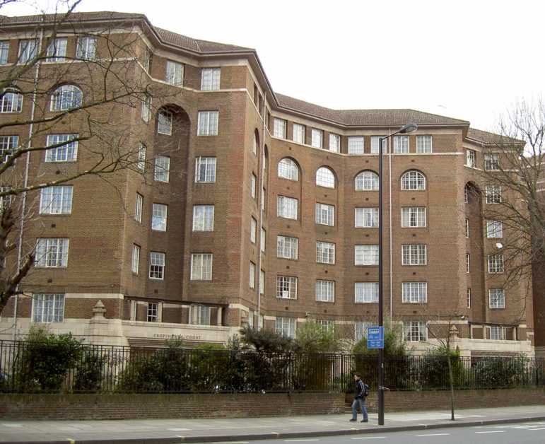 Cropthorne Court, Maida Vale, London. en:1930 by Giles Gilbert Scott; the unusual treatment of the front is in order to obviate the need for lightwells. Category:Images of London